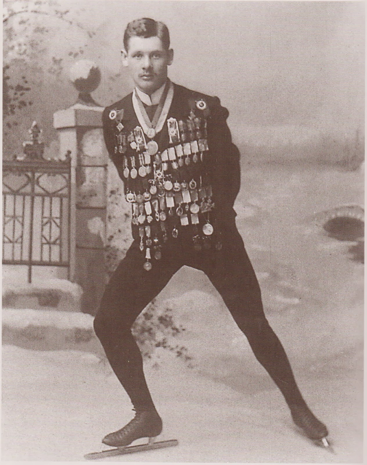 Promotional picture of Finnish speed skater Franz Frederik Wathén dated around 1901